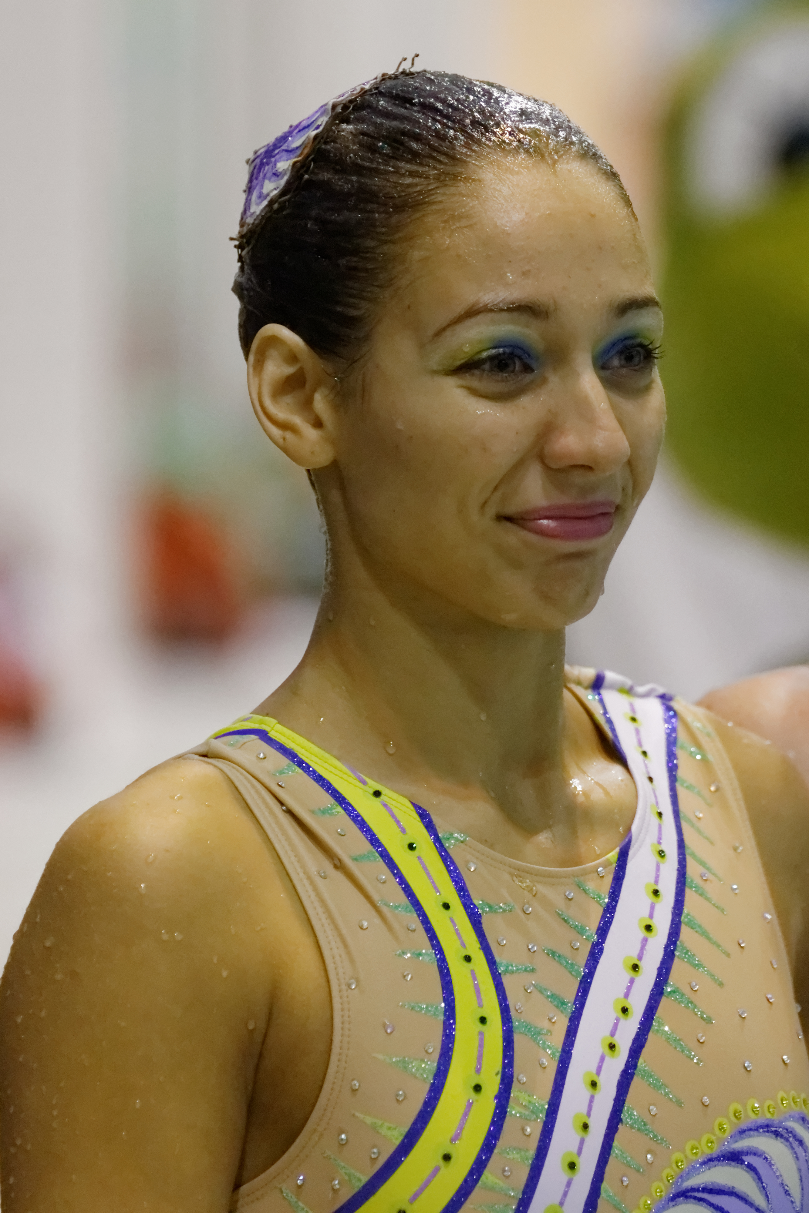 Olia Burtaev, duet free routine (final) with Bianca Hammett, Open Make Up For Ever.